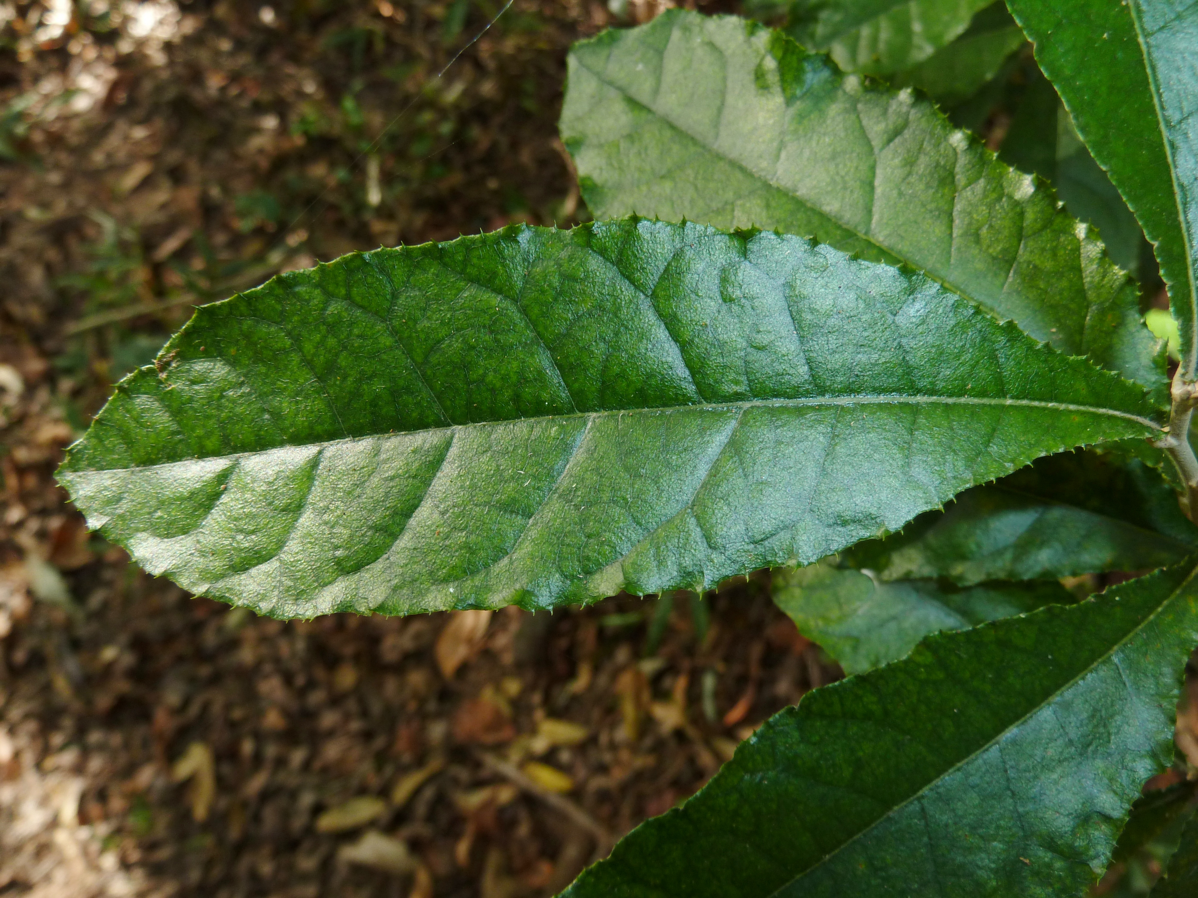 Leaf of a Natal silver-oak in Krantzkloof Nature Reserve.